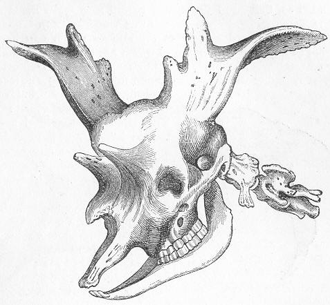 Skull of Sivatherium